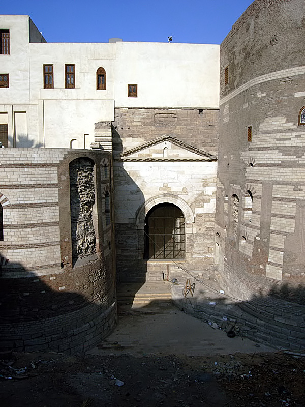 Gate of Amr ibn el-'As, Coptic Museum, cairo, Egypt